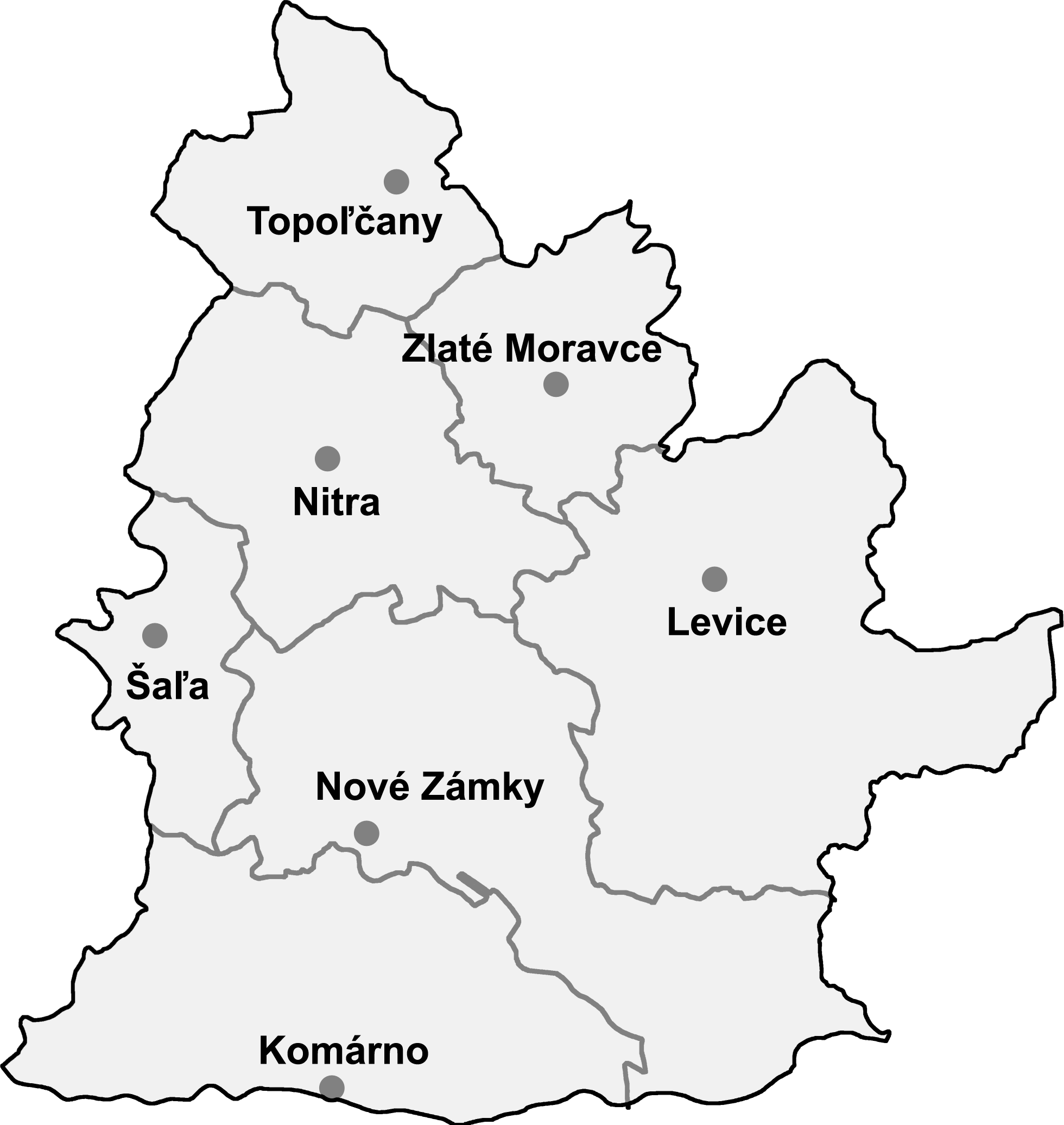 Nitra region (kraj) with districts (okresy)